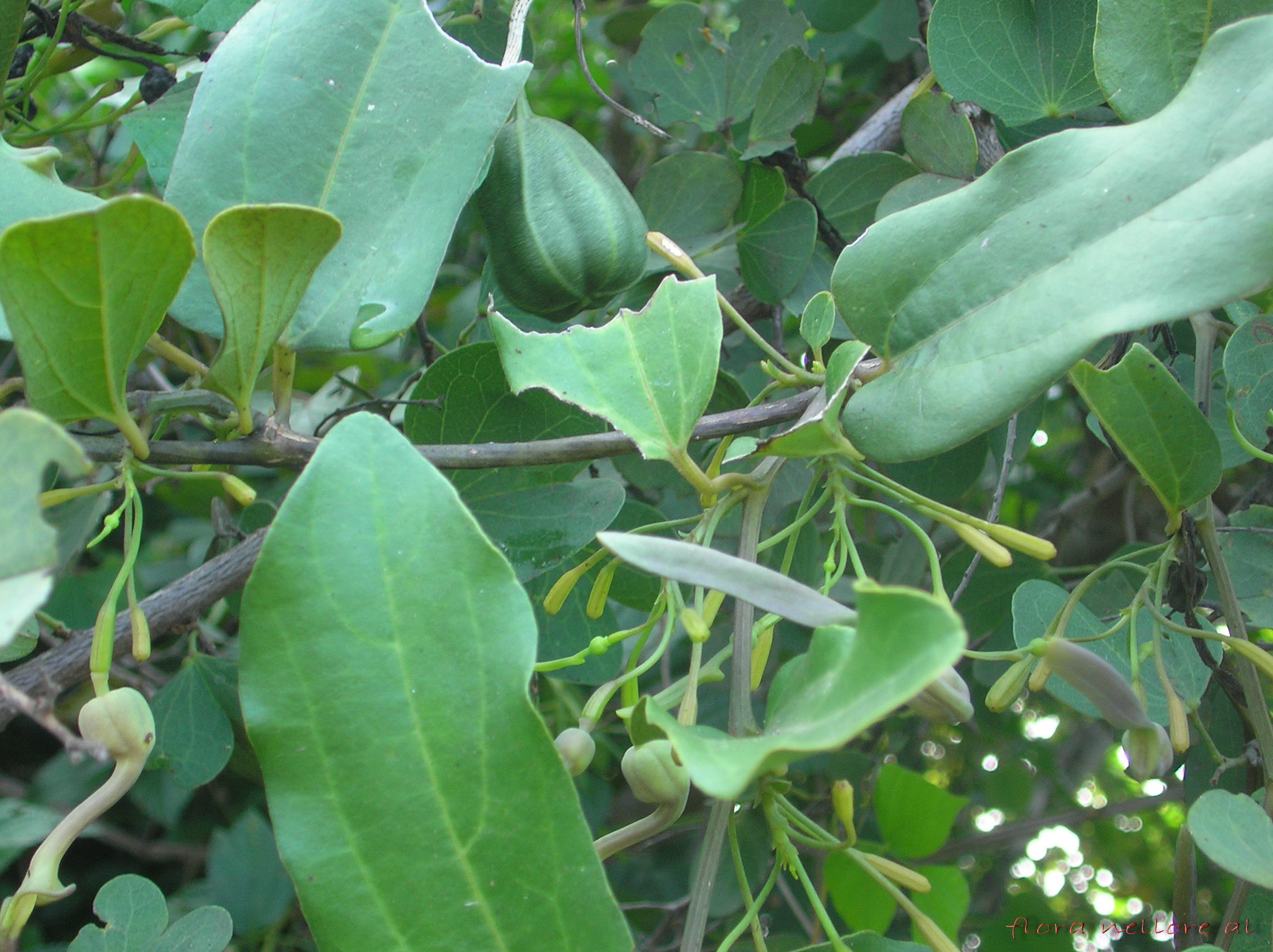 Family:Aristolochiaceae Local name(Telugu): Eswari Distribution: Common and gregarious on bushes and hedges in tropical forests of India. Proffusely branched twining herbs, Leaves obovate-oblong, base sub cordate, Flowers 5-6 cm long, pale pinkish green in terminal or axilary racemes; perianth tube inflated below, then contracted to a cylindric neck, then expanded in a limb.limb glabrous , darker than tube and oblong; stamens 6, stigmatic lobes incurved, Fruit a septicidal capsule,4-5 cm long, ribbed. A bitter plant ; Roots used as antidote for snake bite and indigestion. Photographed at Nellore.